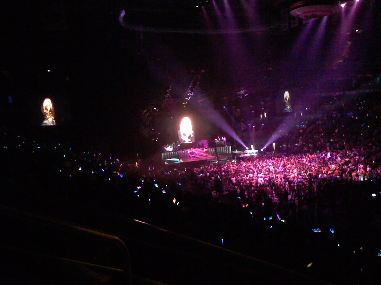 Avril Lavigne in performing in Toronto in 2008